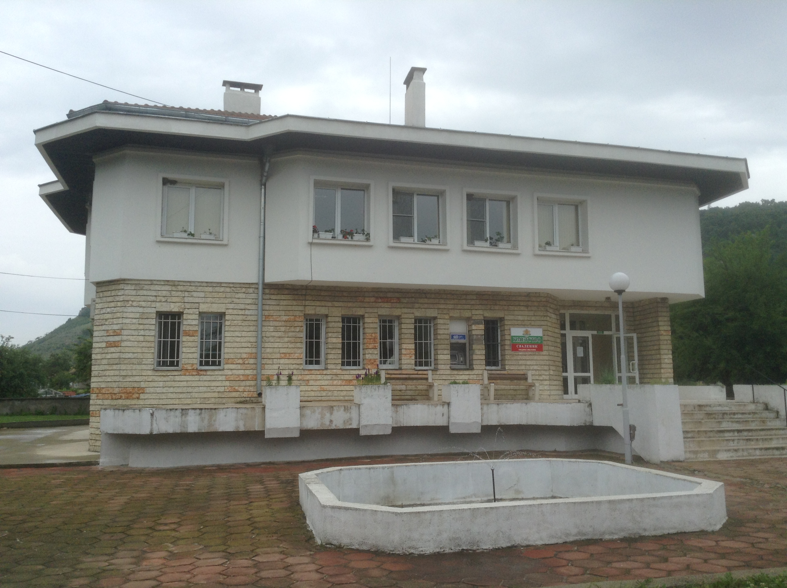 Mayor's place in village of Svalenik, Bulgaria.